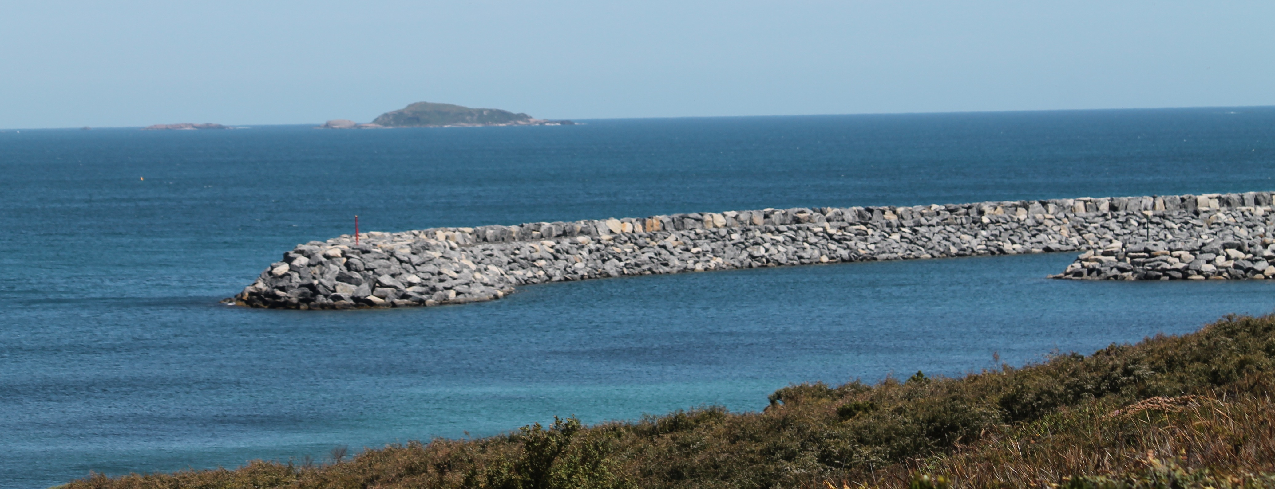 Stonework at November 2013 prepared for the then as yet incomplete Augusta Boat Harbour with Saint Alouarn Island on skyline at centre, Flinders Islet/Island to the left